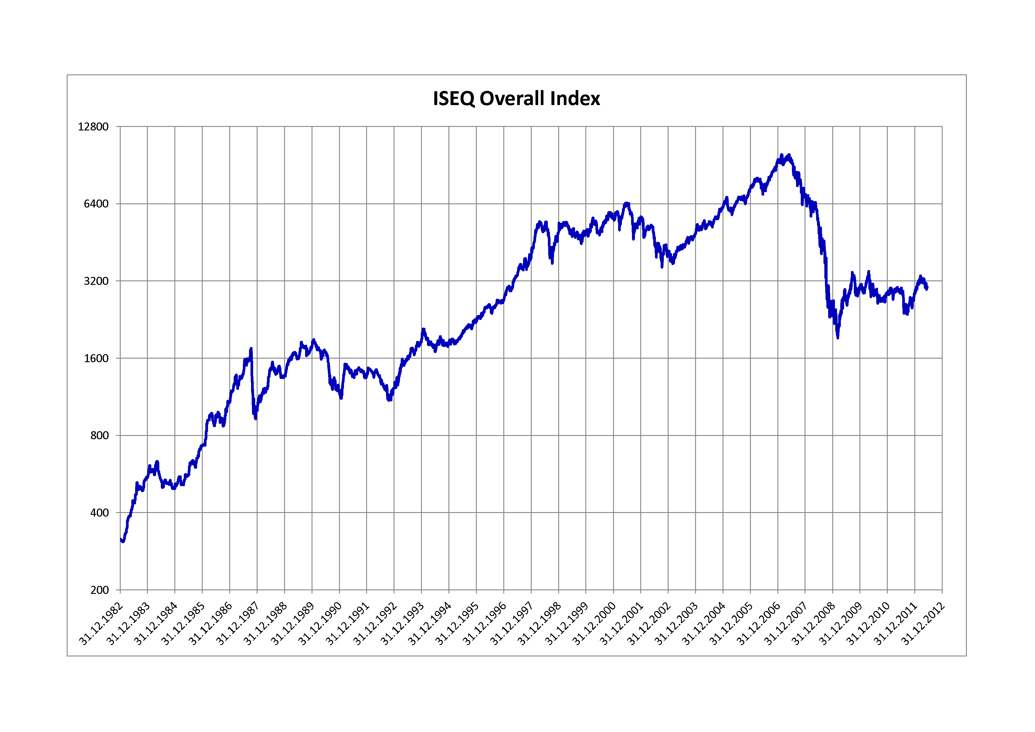 ISEQ Overall Index from December 1982 to June 2012 (daily closings)